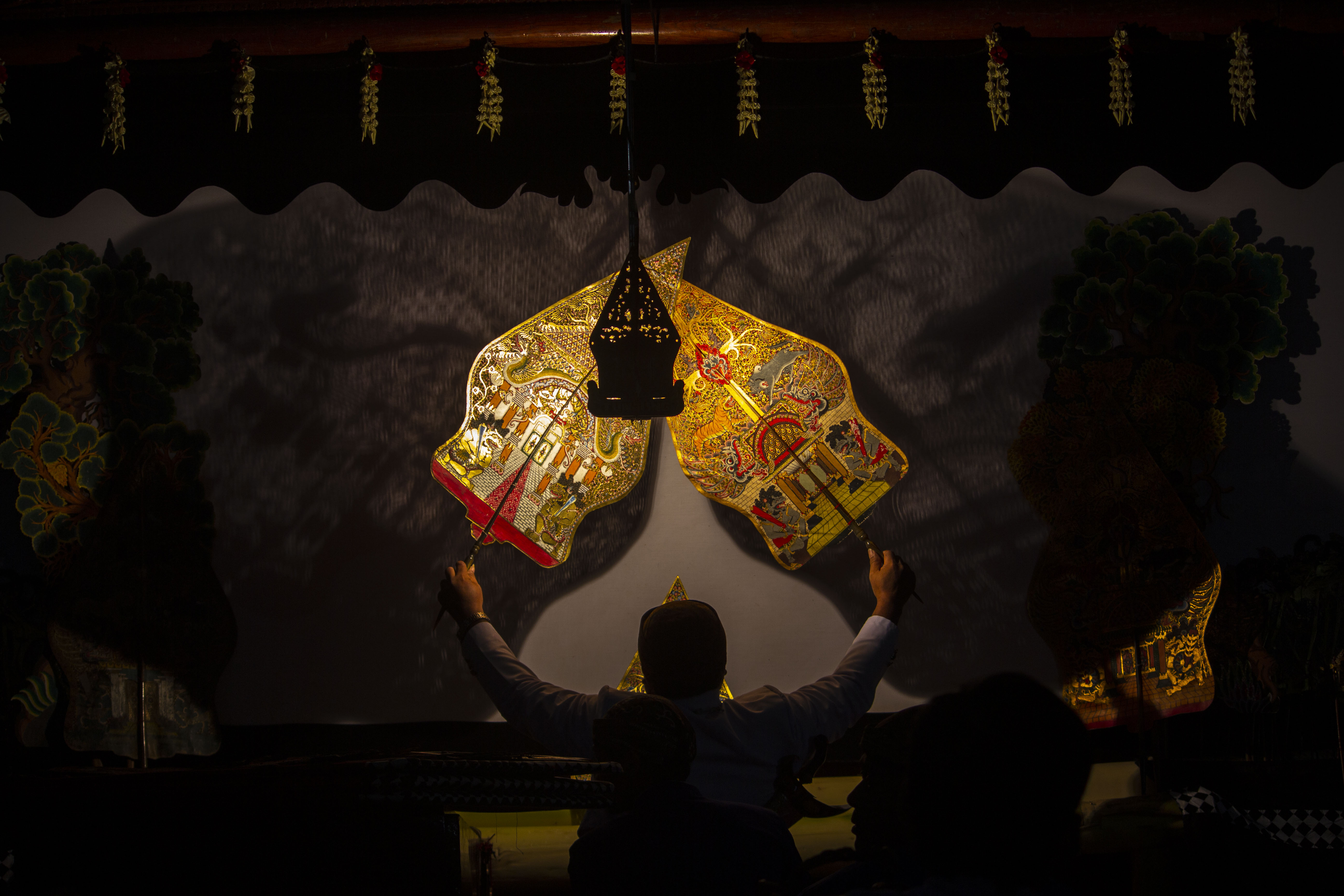 Wayang kulit or puppet is a traditional Indonesian art that mainly developed in Java. Wayang kulit is performed by a dalang.